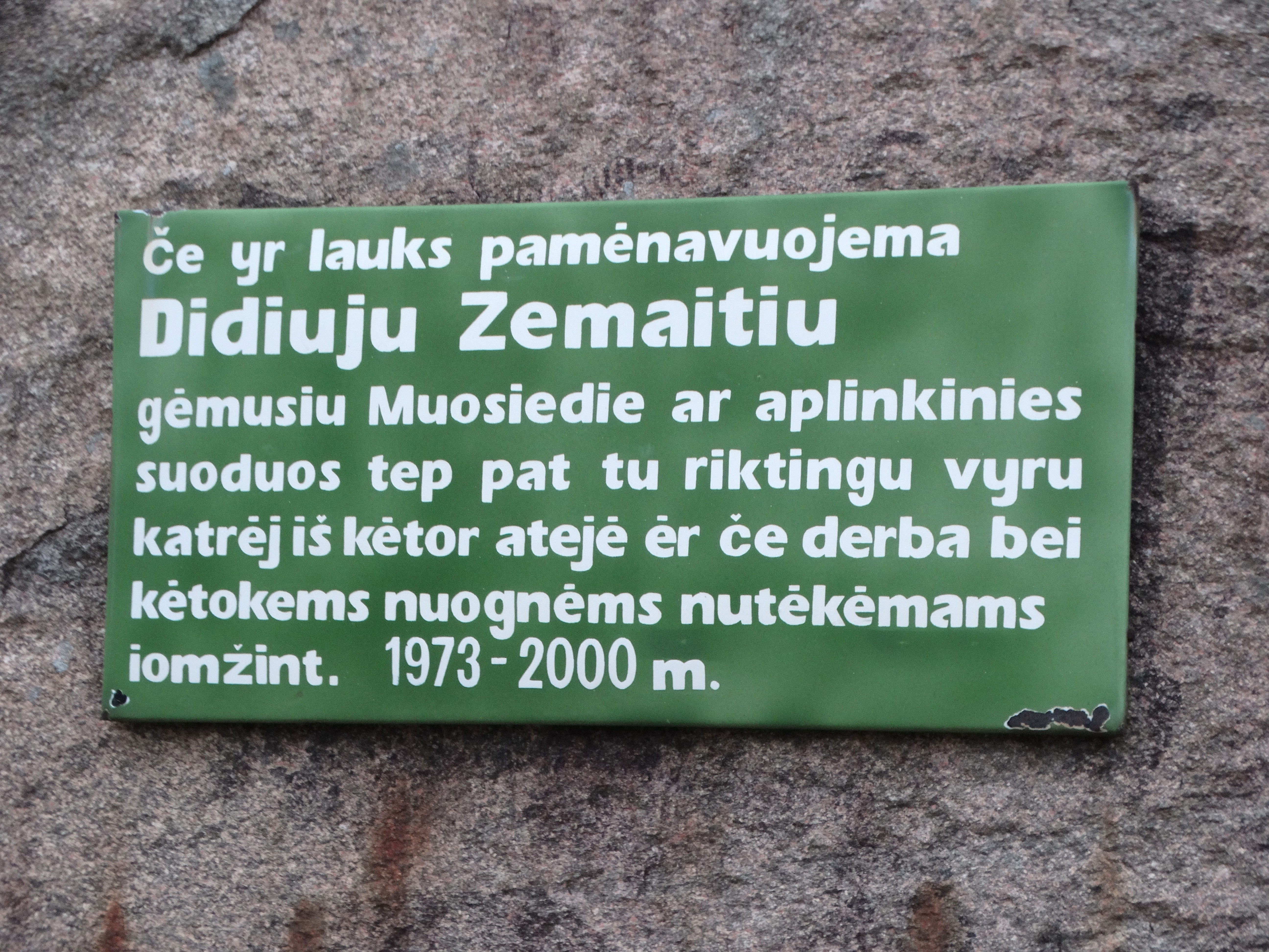 Mosėdis, memorial board in Samogitian dialect, Skuodas District, Lithuania